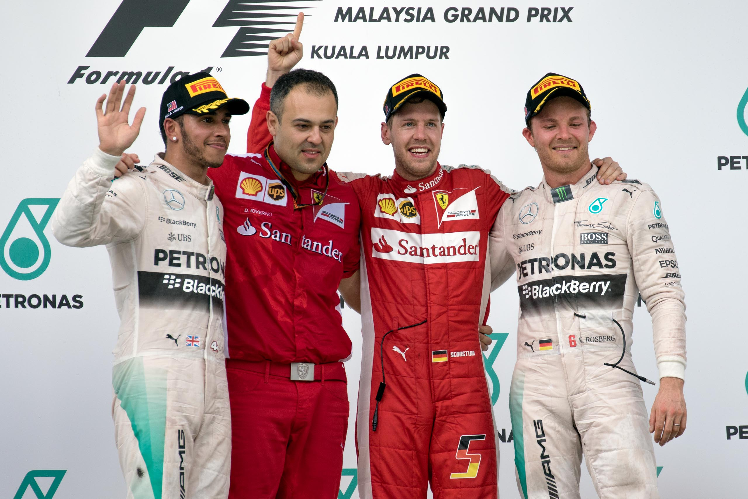 Formula One 2015 Rd.2 Malaysian GP: from left to right - Lewis Hamilton (Mercedes GP), Diego Ioverno (Ferrari, chief mechanic), Sebastian Vettel (Ferrari), and Nico Rosberg (Mercedes GP)